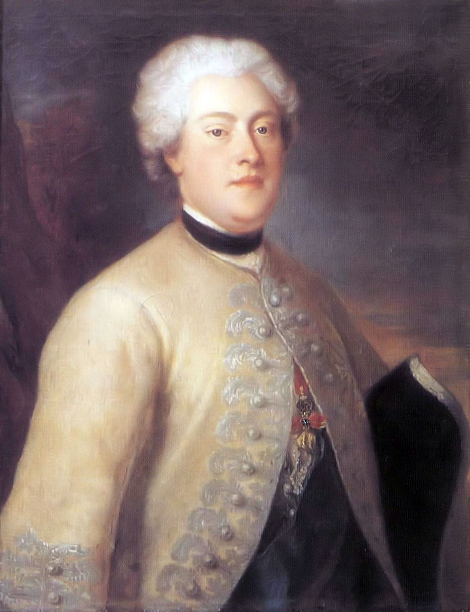 Portrait of August III (1696-1763)